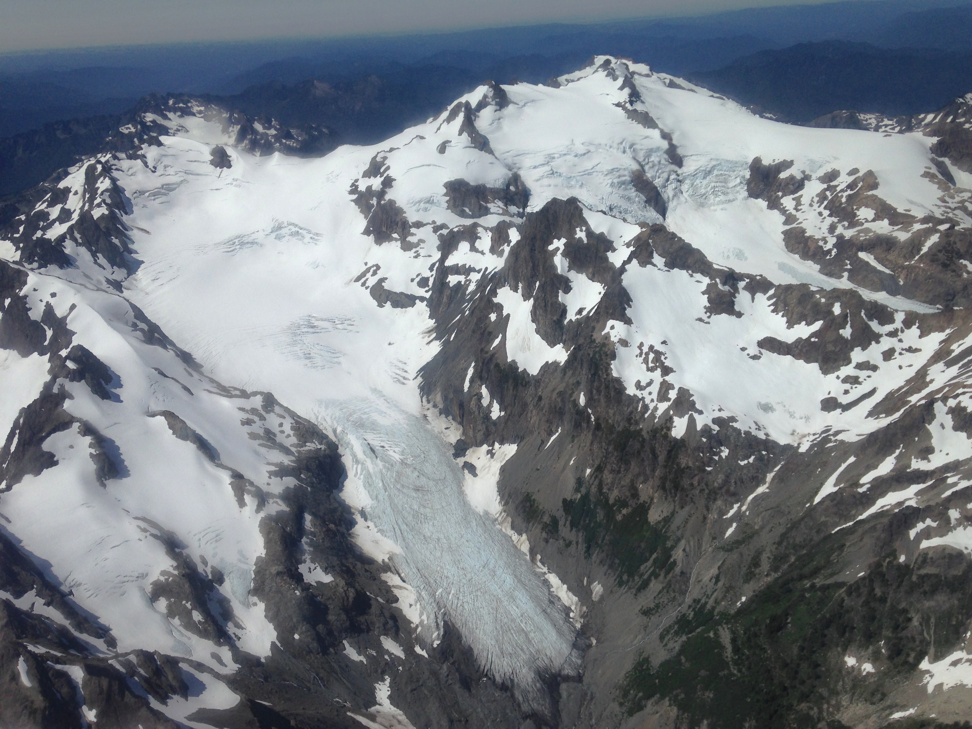 Mt. Olympus. Olympic National Park, Washington. Photo by: Justin Hof Date: July 27, 2016 Credit: USDA Forest Service, Region 6, State and Private Forestry, Forest Health Protection. Source: Aerial Survey Program collection. Image provided by USDA Forest Service, Region 6, State and Private Forestry, Forest Health Protection